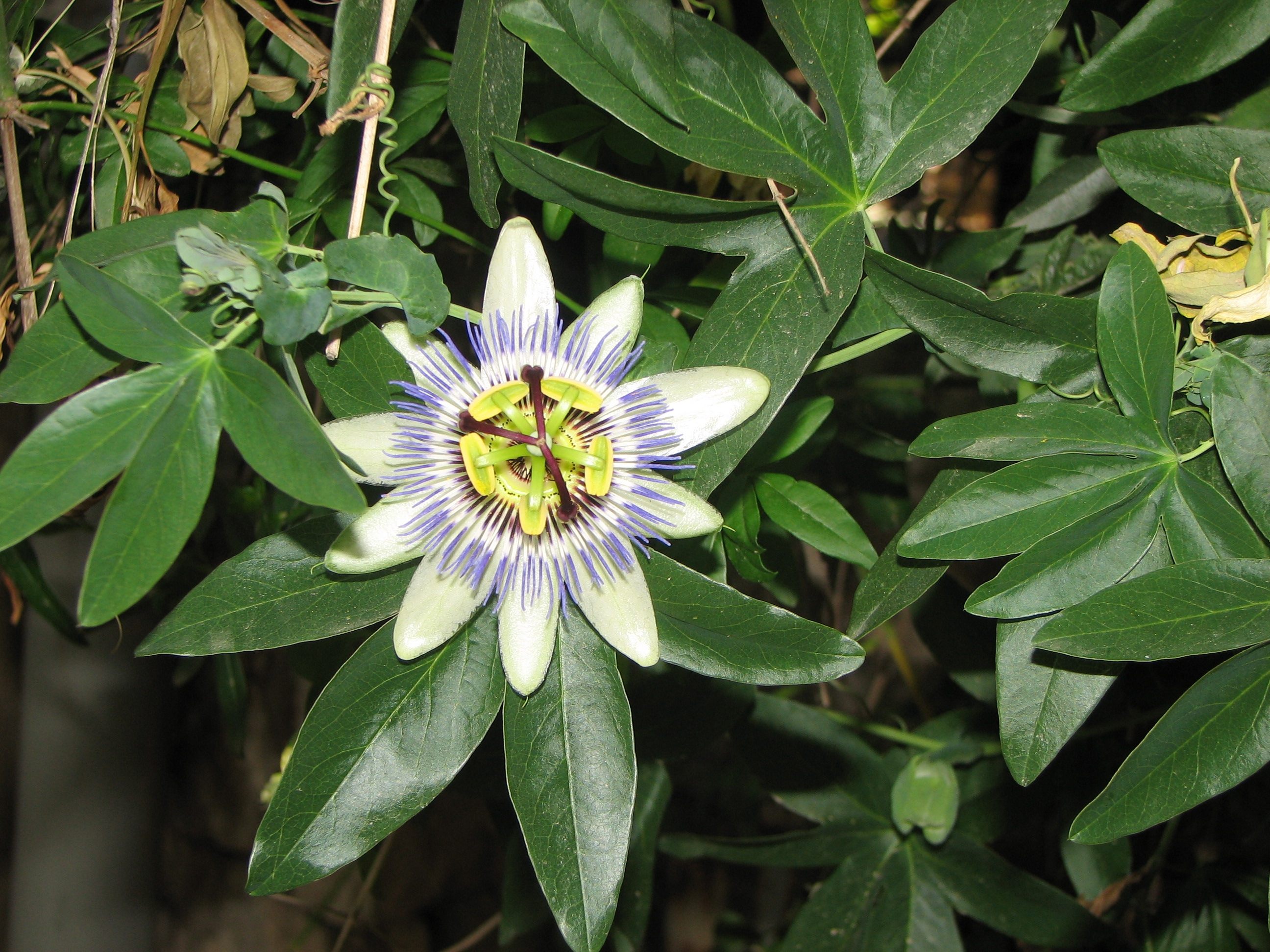 This picture was taken in Bet-HaKerem, Jerusalem, Israel.